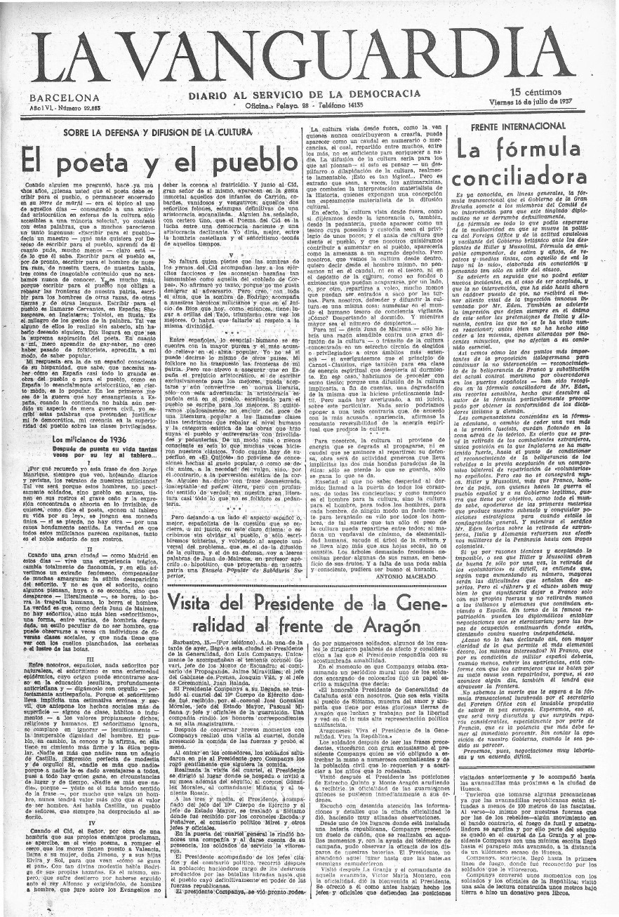 Front page of La Vanguardia